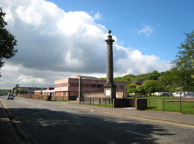 Renton Primary school Renton Primary school, War Memorial and the Tobias Smollet Monument. Tobias George Smollet was born at Dalquhurn, Dunbartonshire. He was educated at Dumbarton and at Glasgow University. He served an apprenticeship to a Glasgow surgeon, but except for a period spent as surgeon in the navy, 1739-44, he only practised in a desultory fashion. Smollett died at Leghorn, September 17, 1771. He was an unequal writer, but in parts he attains a higher level than even his contemporary Fielding, and created a gallery of characters seldom surpassed. In his book "Discovering Scottish Writers" Louis Stott describes Smollet as the "first Scottish novelist and he has never been surpassed." A monument to the novelist was erected in 1774 and now stands outside Renton Primary School. The inscription, written in Latin jointly by Dr Samuel Johnson, Professor George Stuart of Edinburgh and Mr Ramsay of Ochtertyre, themselves literary giants, a translation of the inscription on the wall reads: Stay Traveller If elegance of taste and wit, if fertility of genius and an unrivalled talent in delineating the characters of mankind, have ever attracted your admiration, pause awhile on the memory of Tobias Smollett, MD, one more than commonly endowed with these virtues which, in a man or citizen, you would praise or imitate. Who, having secured the applause of posterity by a variety of literary abilities and a peculiar felicity of composition was, by a rapid and cruel distemper, snatched from this world in the fifty-first year of his age.